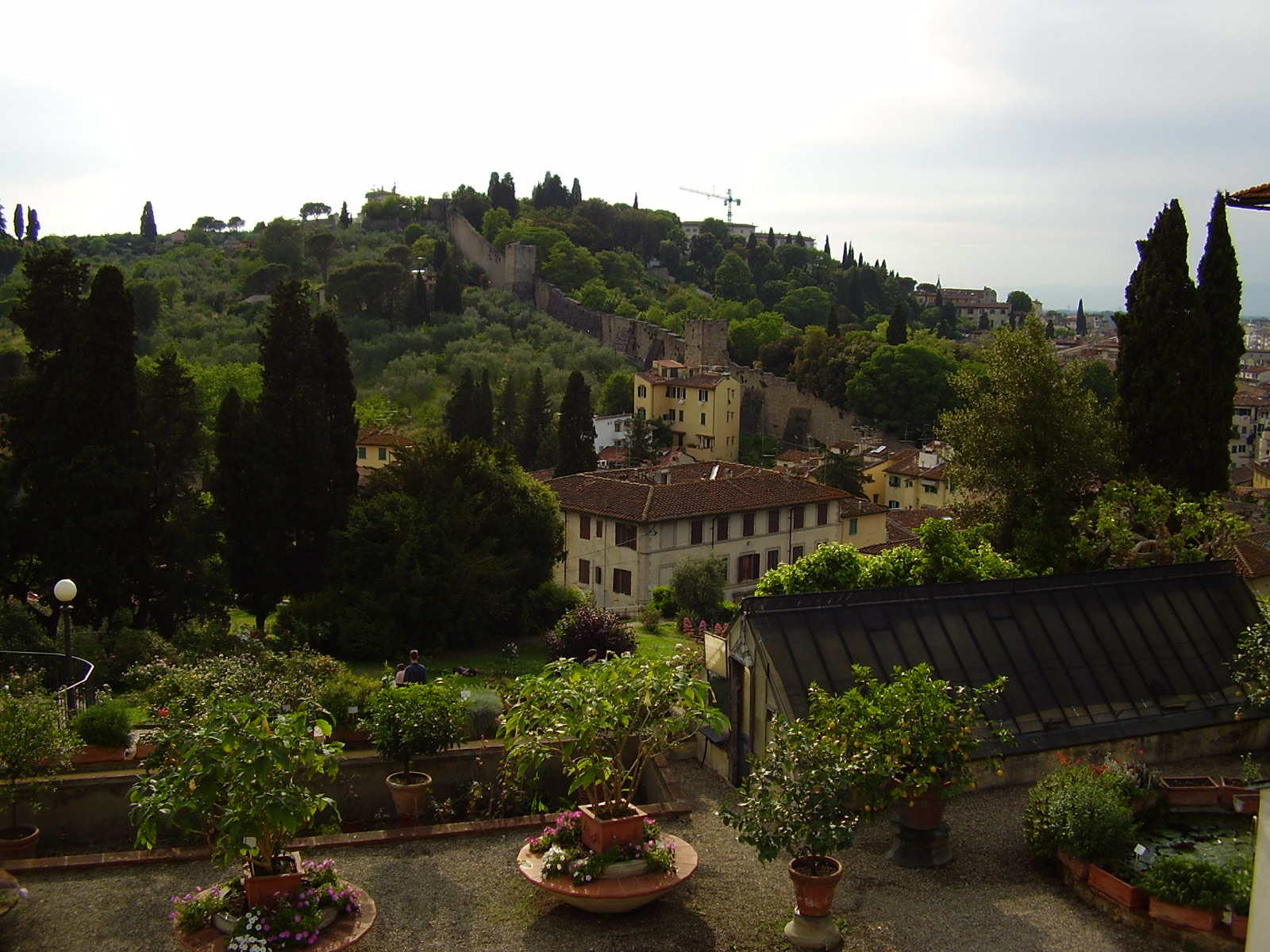 Walls of the city, San Niccolò area in Florence, Italy